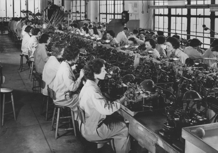 Title: [Women working in the Pinion Department at Bulova Watch] Creator: Richie, Robert Yarnall (1908-1984) Date: 1937 Part Of: Robert Yarnall Richie photographs Physical Description: 1 photographic print: gelatin silver; 13 x 18 cm. File: ag1982_0234_1596_02_sm_opt.jpg Rights: Please cite Southern Methodist University, Central University Libraries, DeGolyer Library when using this image file. A high-quality version of this file may be obtained for a fee by contacting . For more information, see: View the Robert Yarnall Richie Photographs at